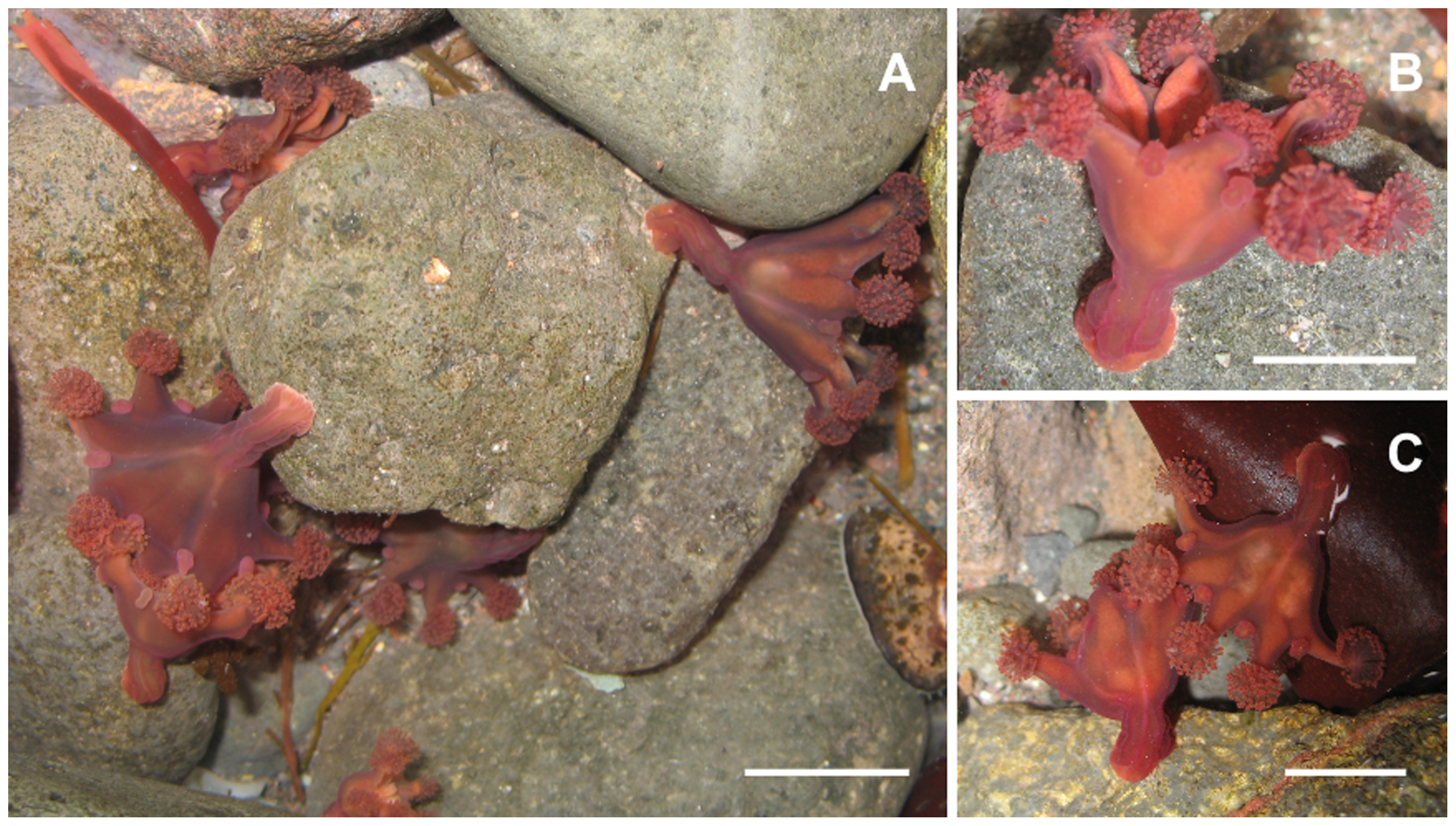 Living specimens of Haliclystus antarcticus in the field. Scale = 1.2 cm. A, B – side view, attached to rock; C – side view attached to rock and algae Iridaea cordata (Rhodophyta).